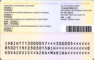 New biometric BH ID cards